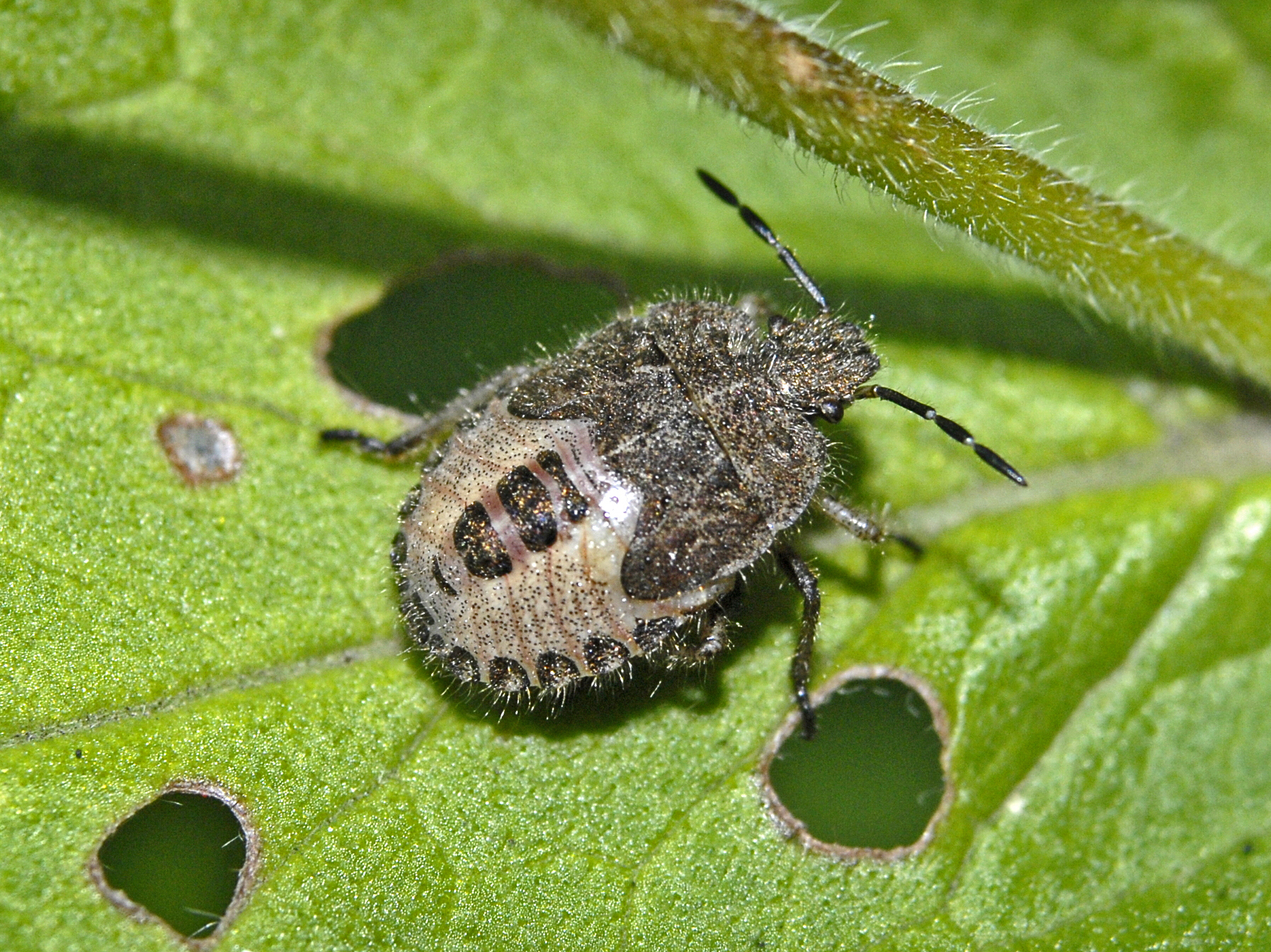 Dolycoris baccarum (Late nymph). Piani di Praglia, Genova, Italy